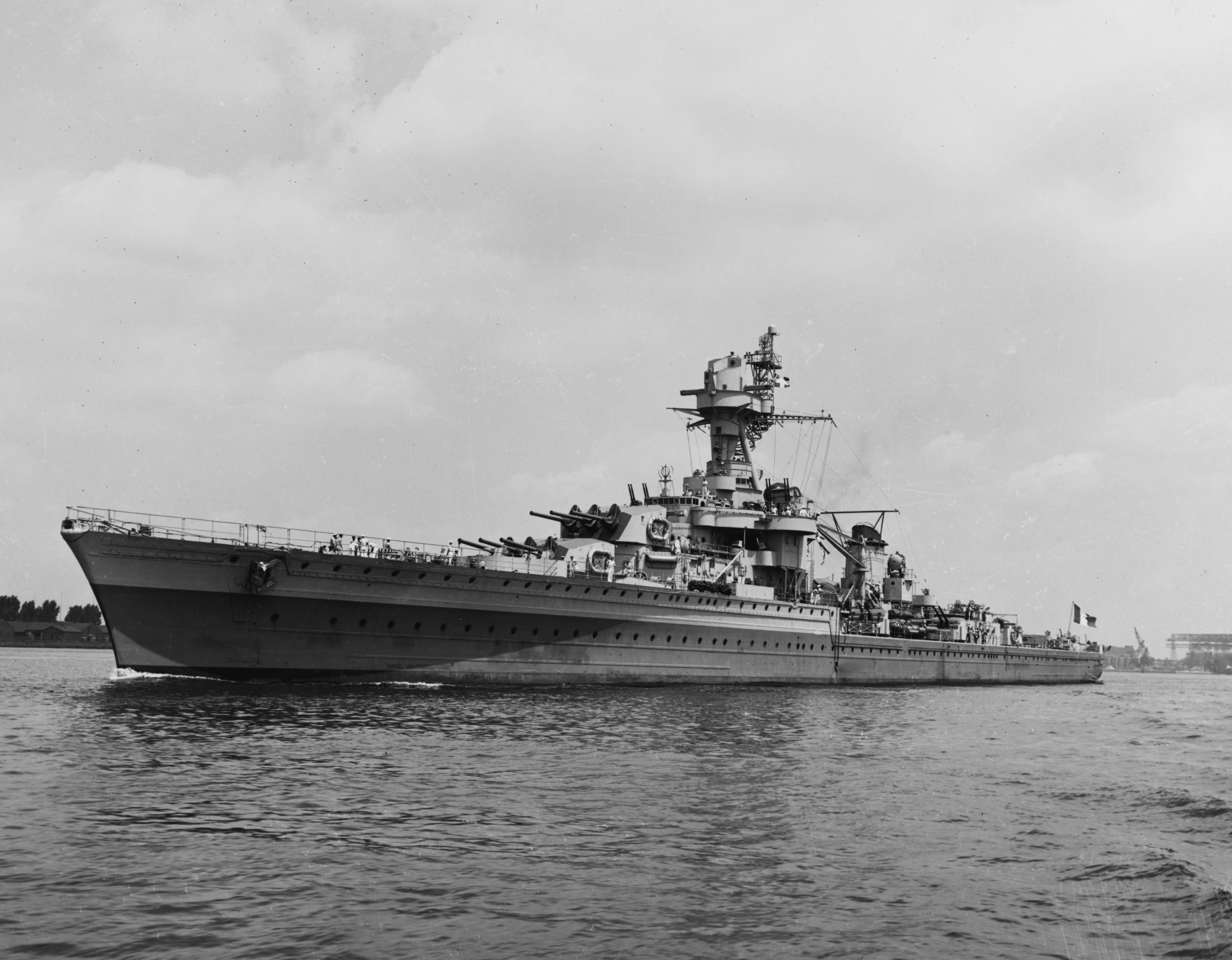 Title: Montcalm (French cruiser, 1935) Caption: Off the Philadelphia Navy Yard, Pennsylvania, 30 July 1943. She had just finished a refit at that Yard. Catalog #: 19-N-48988 Copyright Owner: National Archives Original Date: Fri, Jul 30, 1943